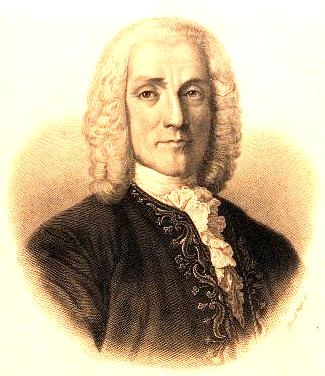 Portrait of Domenico Scarlatti